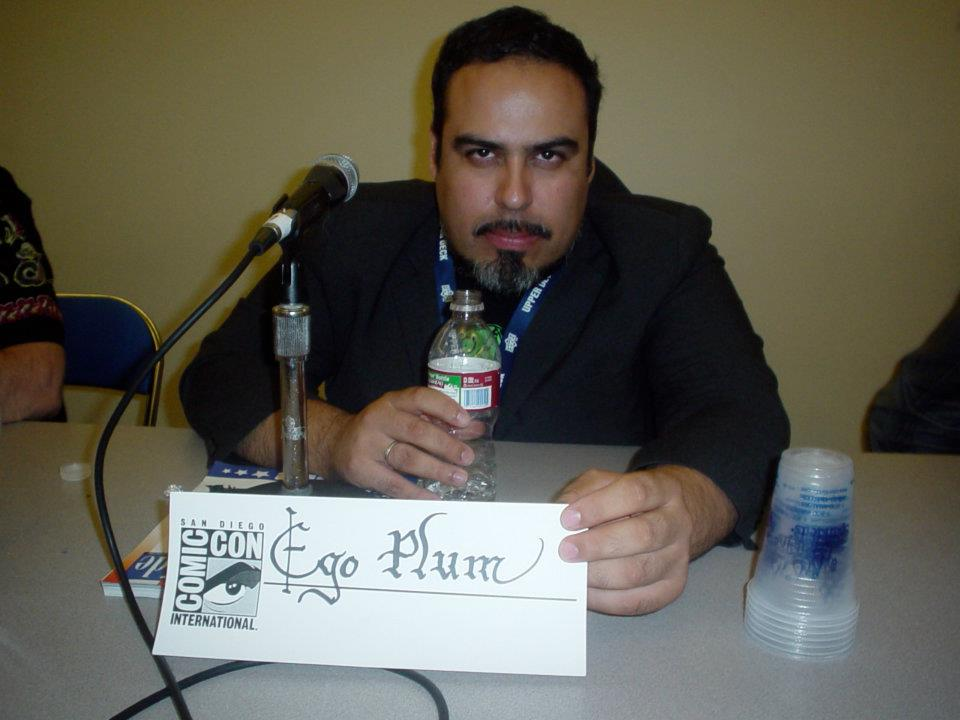 Photo of composer Ego Plum taken at the San Diego Comic-Con in 2008.